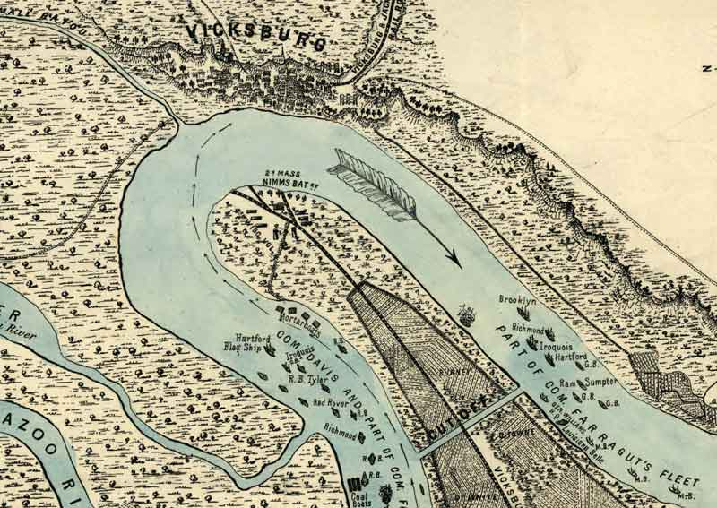 Detail from View of Vicksburg and plan of the canal, fortifications & vicinity. Indicates fortifications, location, type and names of boats, roads, railroads, levees, drainage, vegetation, and the names of a few residents. Surveyed by Lieut. L. A. Wrotnowski, Engr., Drawn & Lithogd. by A. F. Wrotnowski, C.E., Major David C. Houston, Chief Engineer, 19th Army Corps, Library of Congress